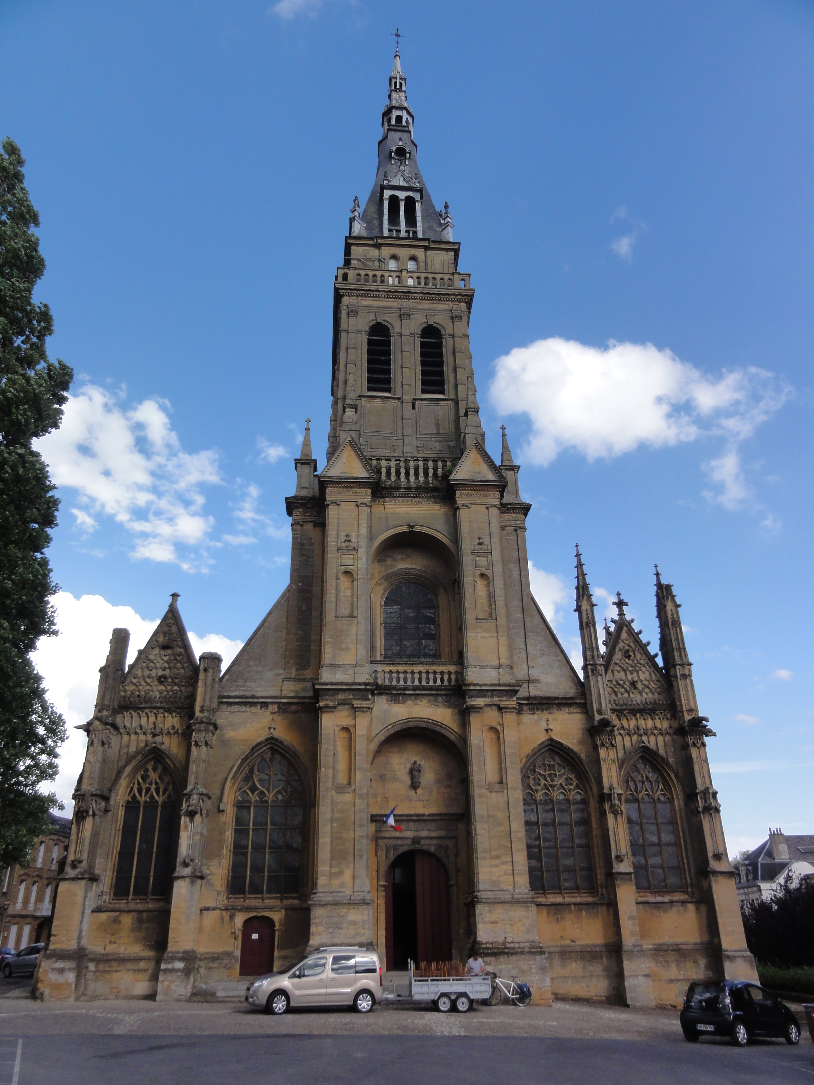 Charleville-Mézières, Basilique Notre-Dame-d'Espérance de Mézières